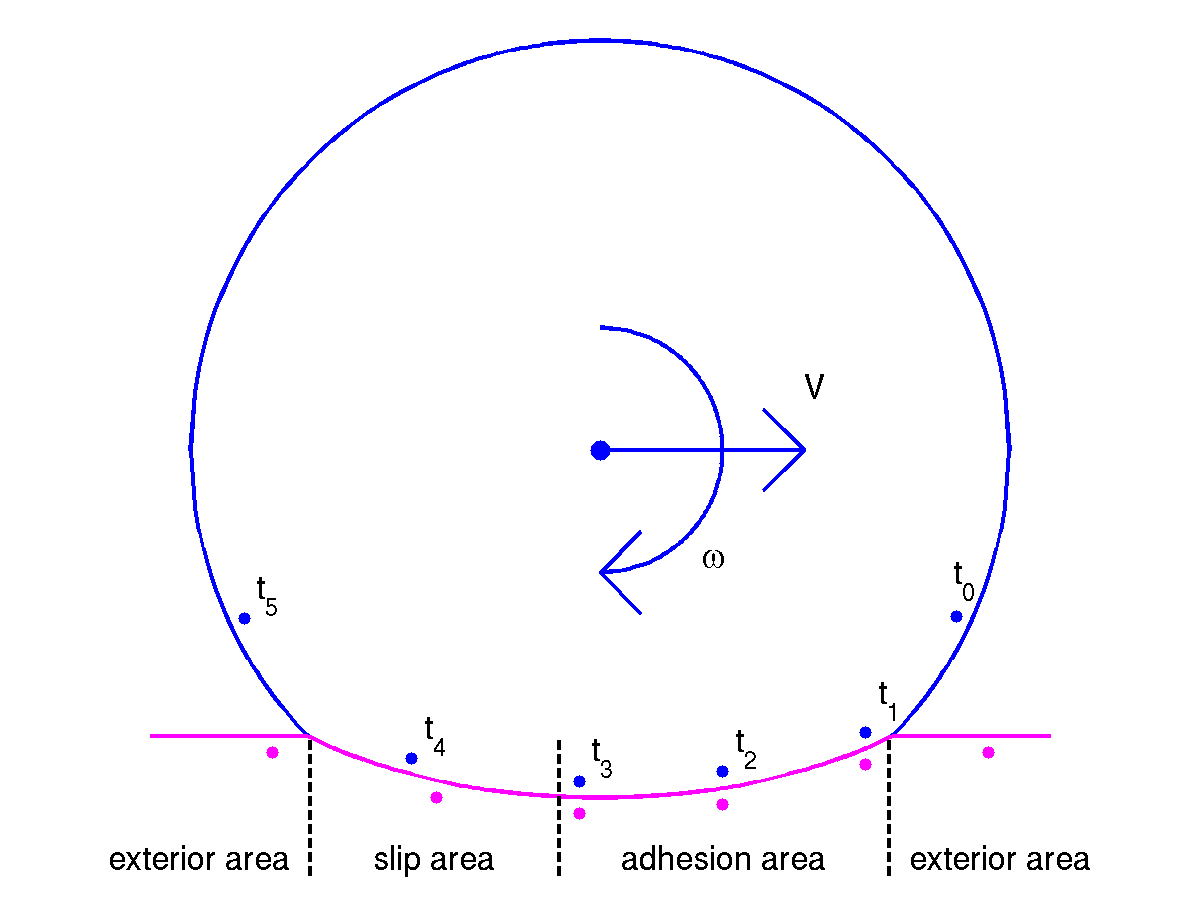 Wheel particles that enter the contact area (right) adhere to opposing particles of the rail. The creepage increasingly tries to shear the two surfaces. Elastic deformation occurs, and local sliding occurs where the shear stress is at the Coulomb traction bound.